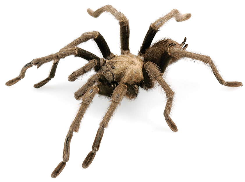 Aphonopelma iodius male